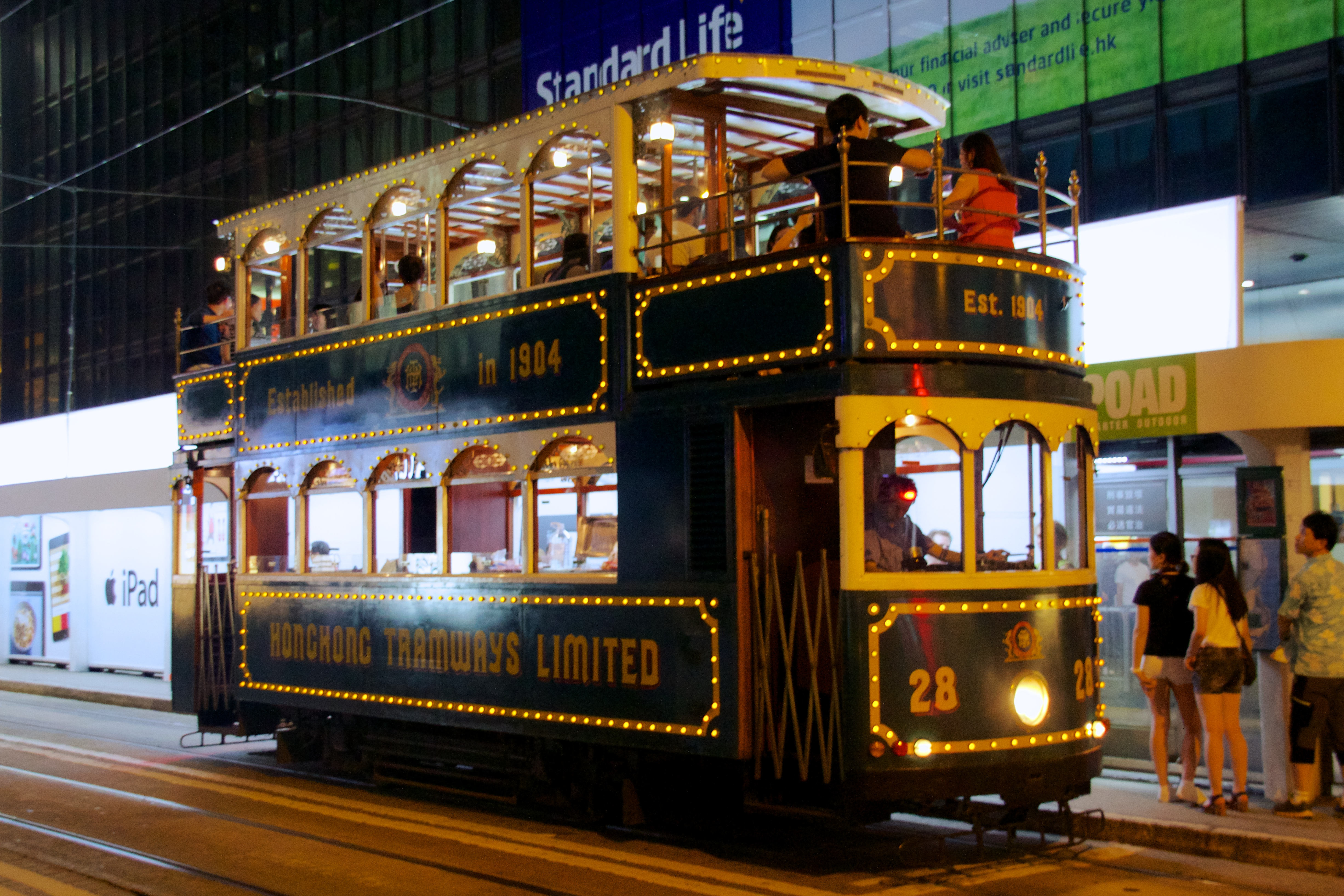 Hong Kong tramways 28